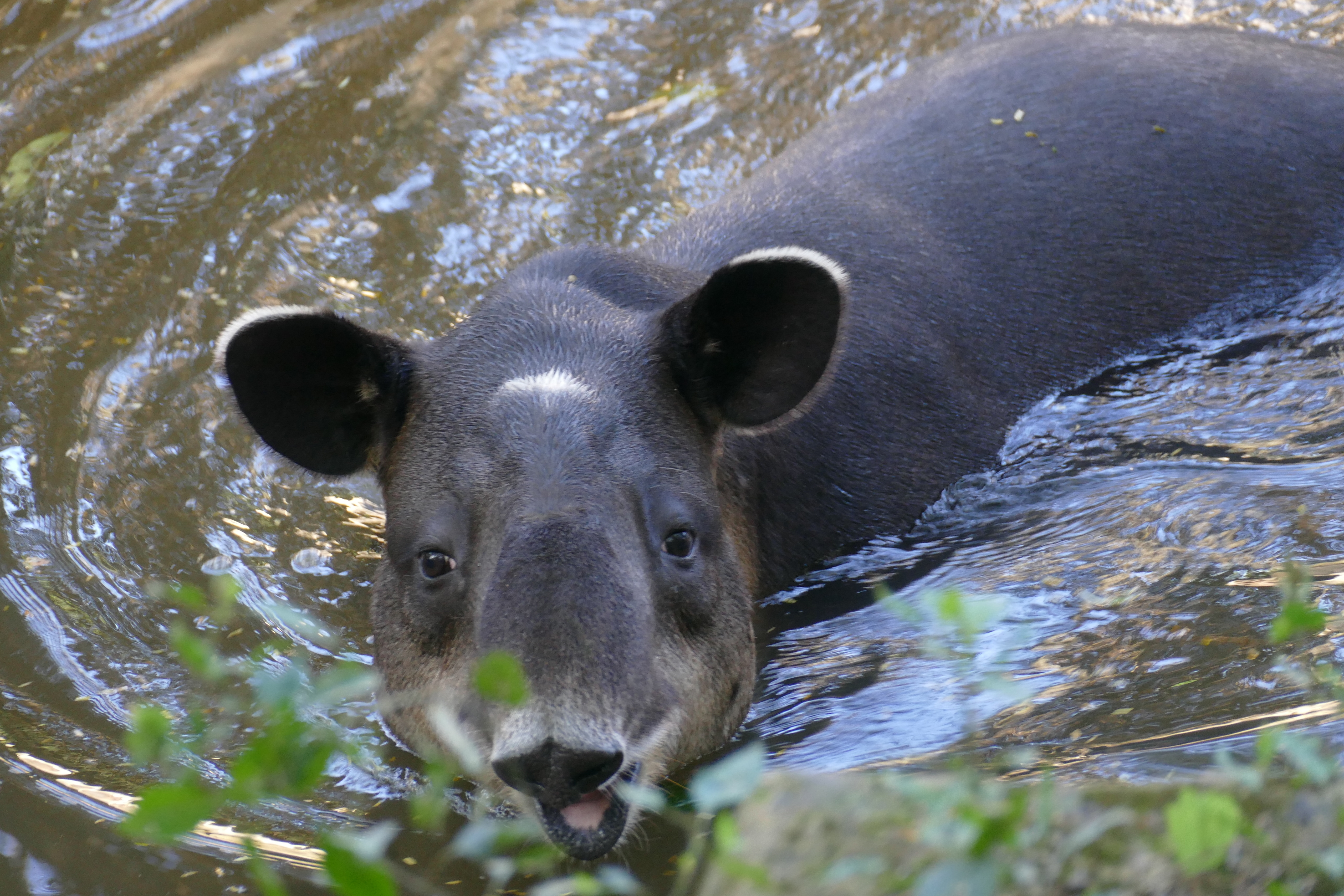 Espécimen cautivo de Tapirus bairdii en Aluxes, Palenque, Chiapas, MEXICO.